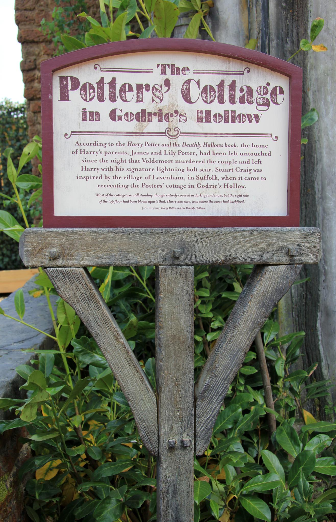 Warner Bros. Studio Tour London: The Making of Harry Potter.